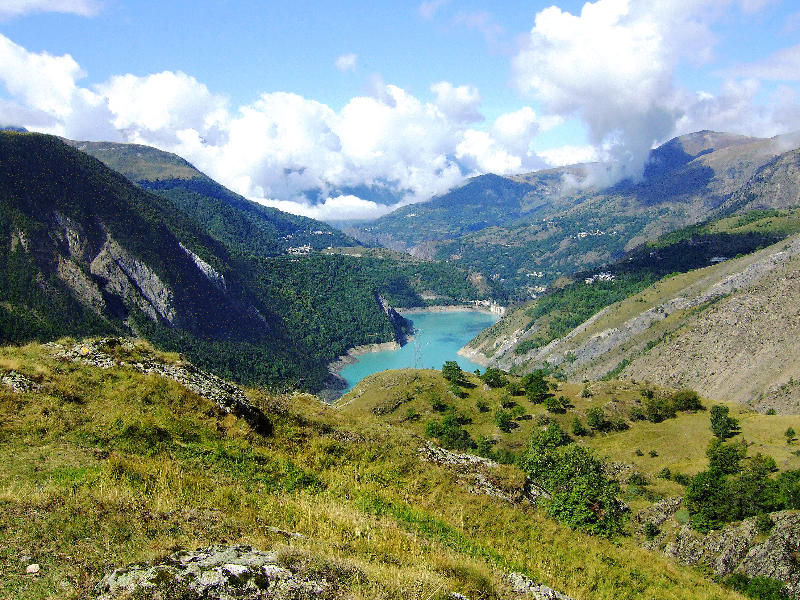 View of Lac du Chambon.